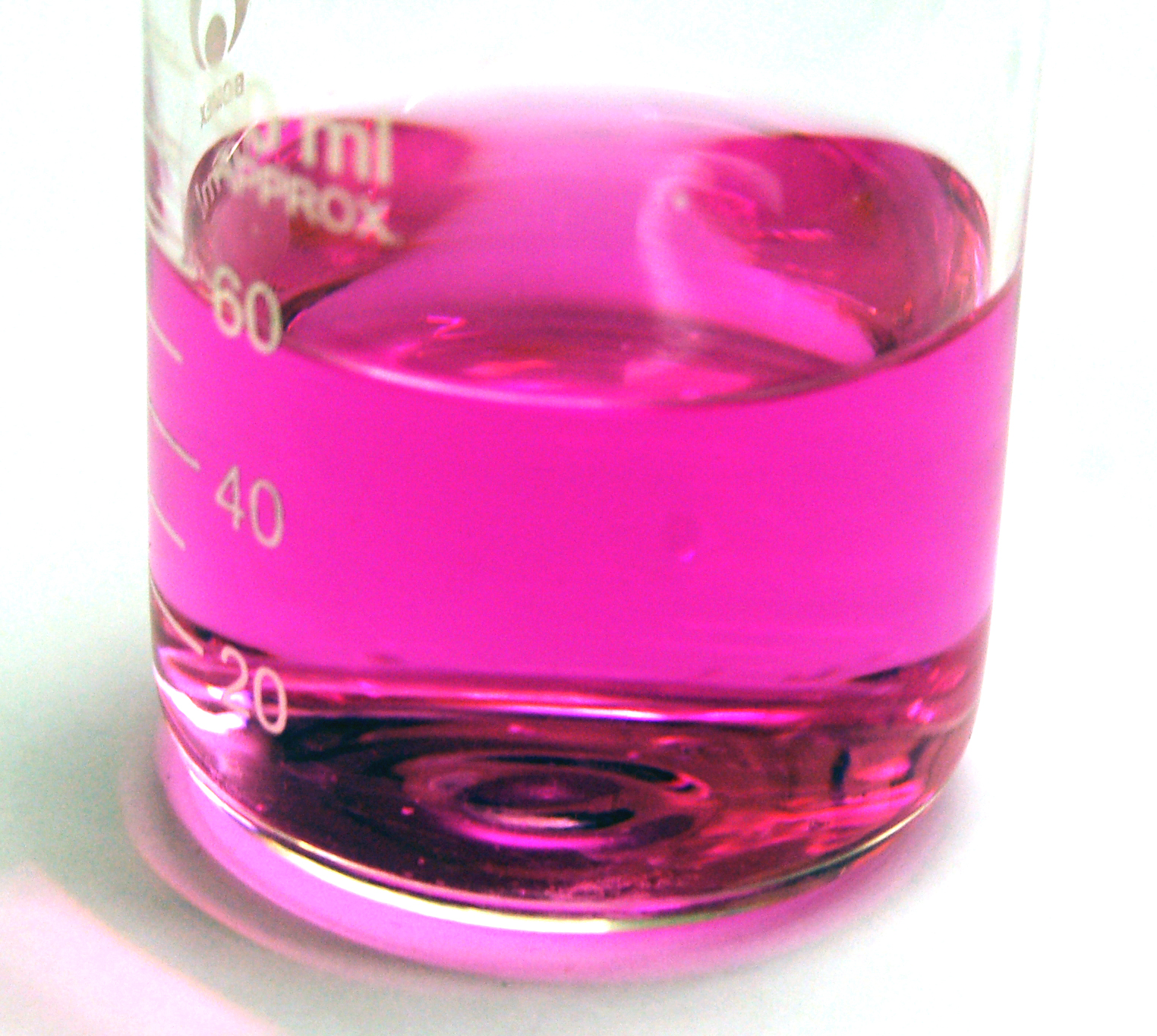 Phenolphthalein in alkaline solution (pH 9), exhibiting a pink colour